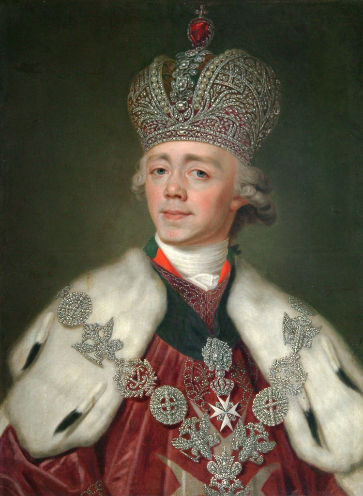 Emperor Paul I of Russia by Vladimir Borovikovsky